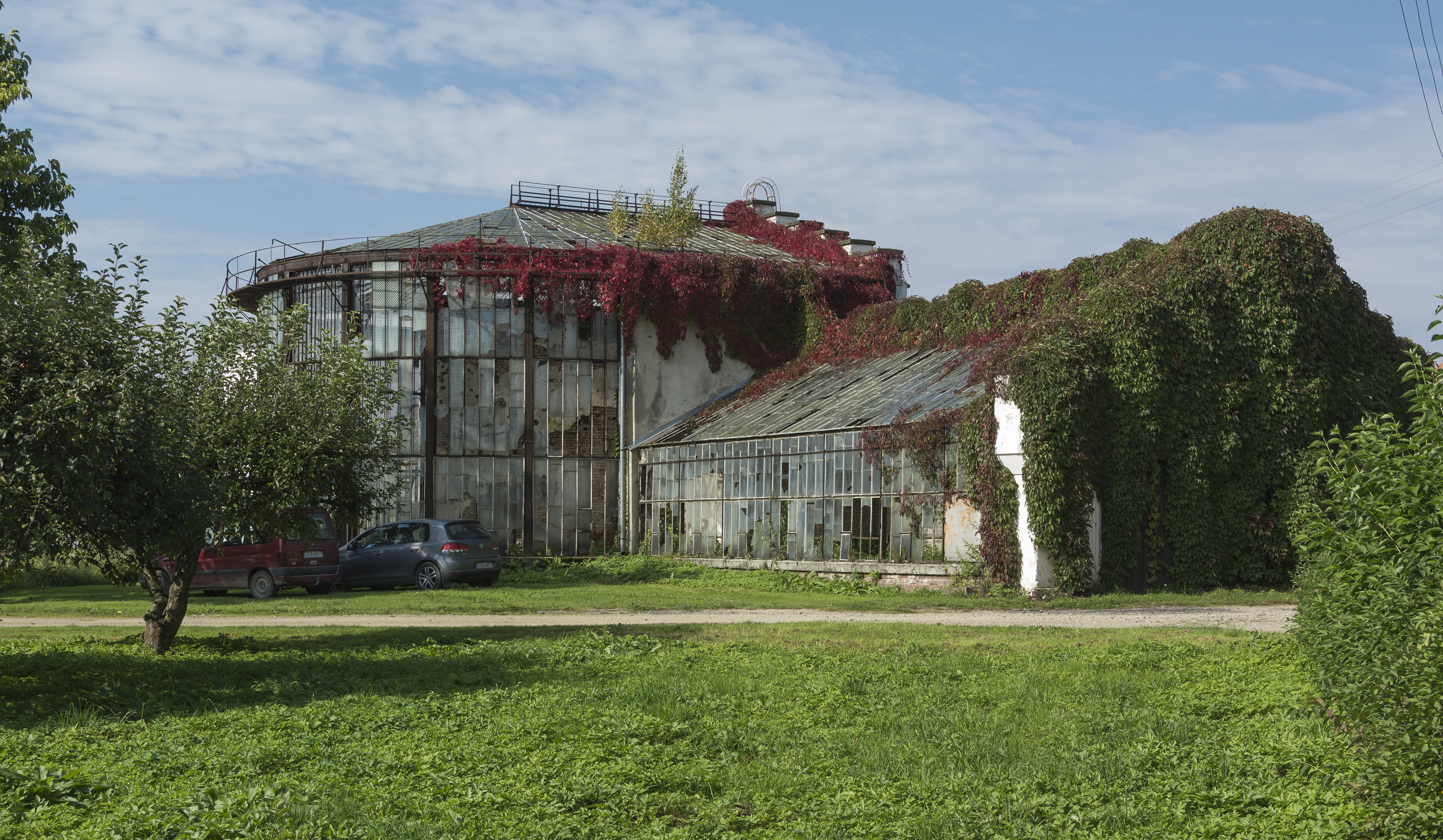 Kamieniec Ząbkowicki Abbey, first glasshouse